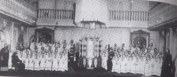 Fiery furnace by Alexander Kastalsky